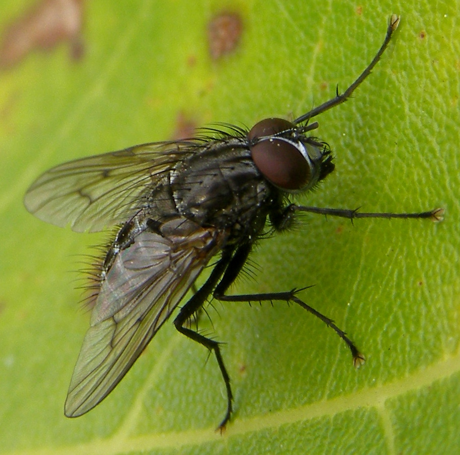 A male Muscid fly of species Helina evecta.